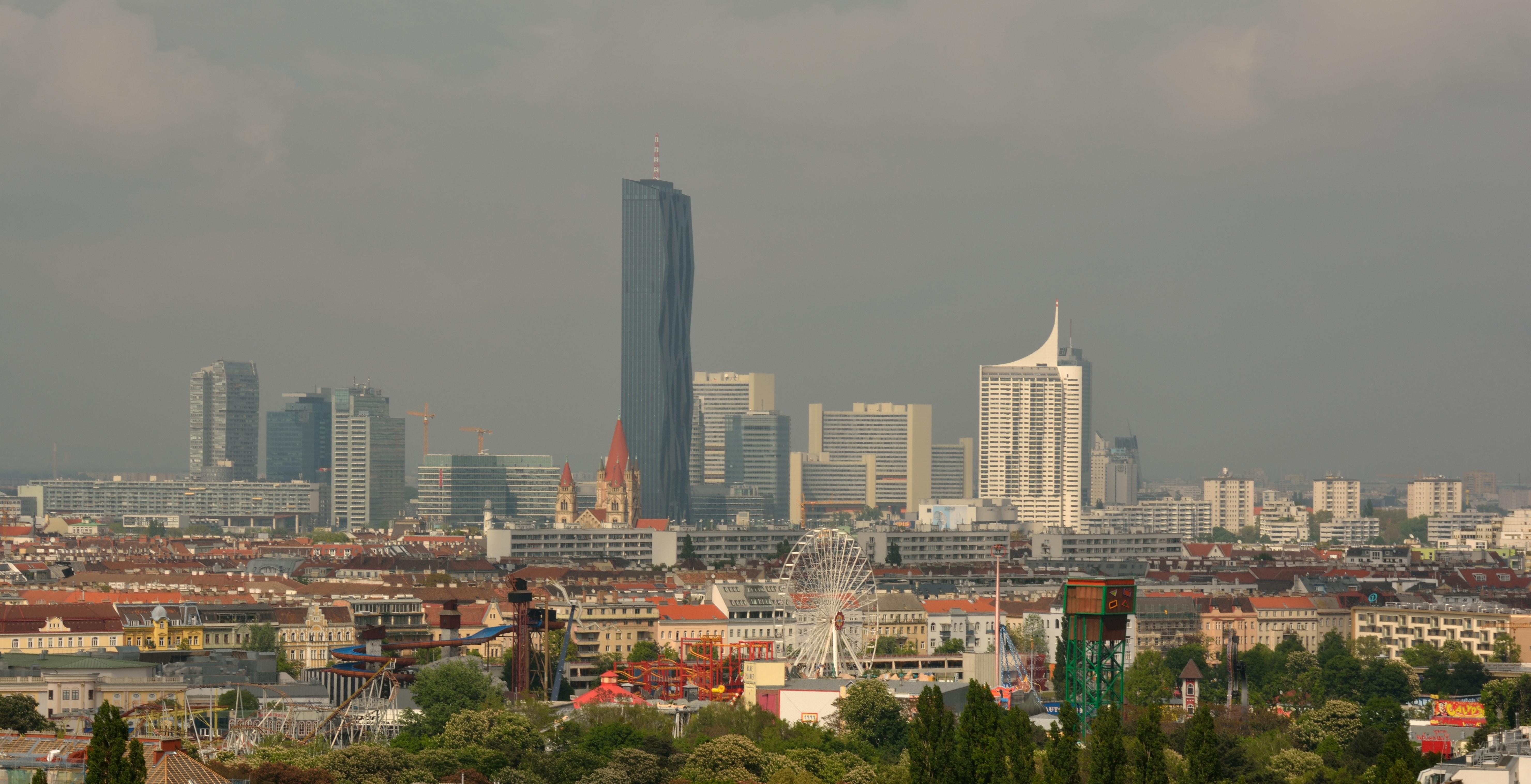 View from church tower of parish church St. Othmar unter den Weißgerbern to the Donau City, the Prater and the St. Francis of Assisi Church, Vienna